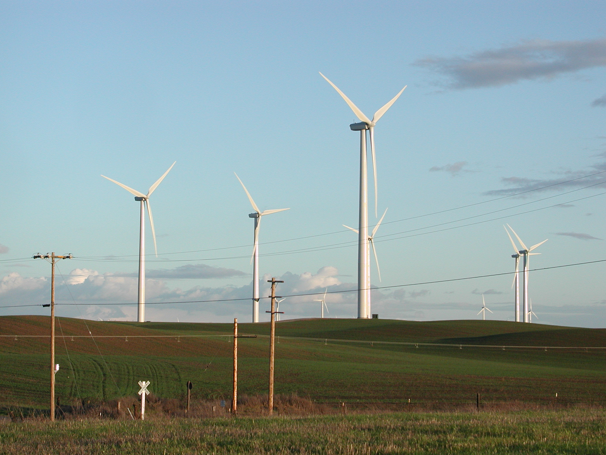 General Electric 1.5 MW wind turbines of the Shiloh Wind Power Plant in Solano County, California.